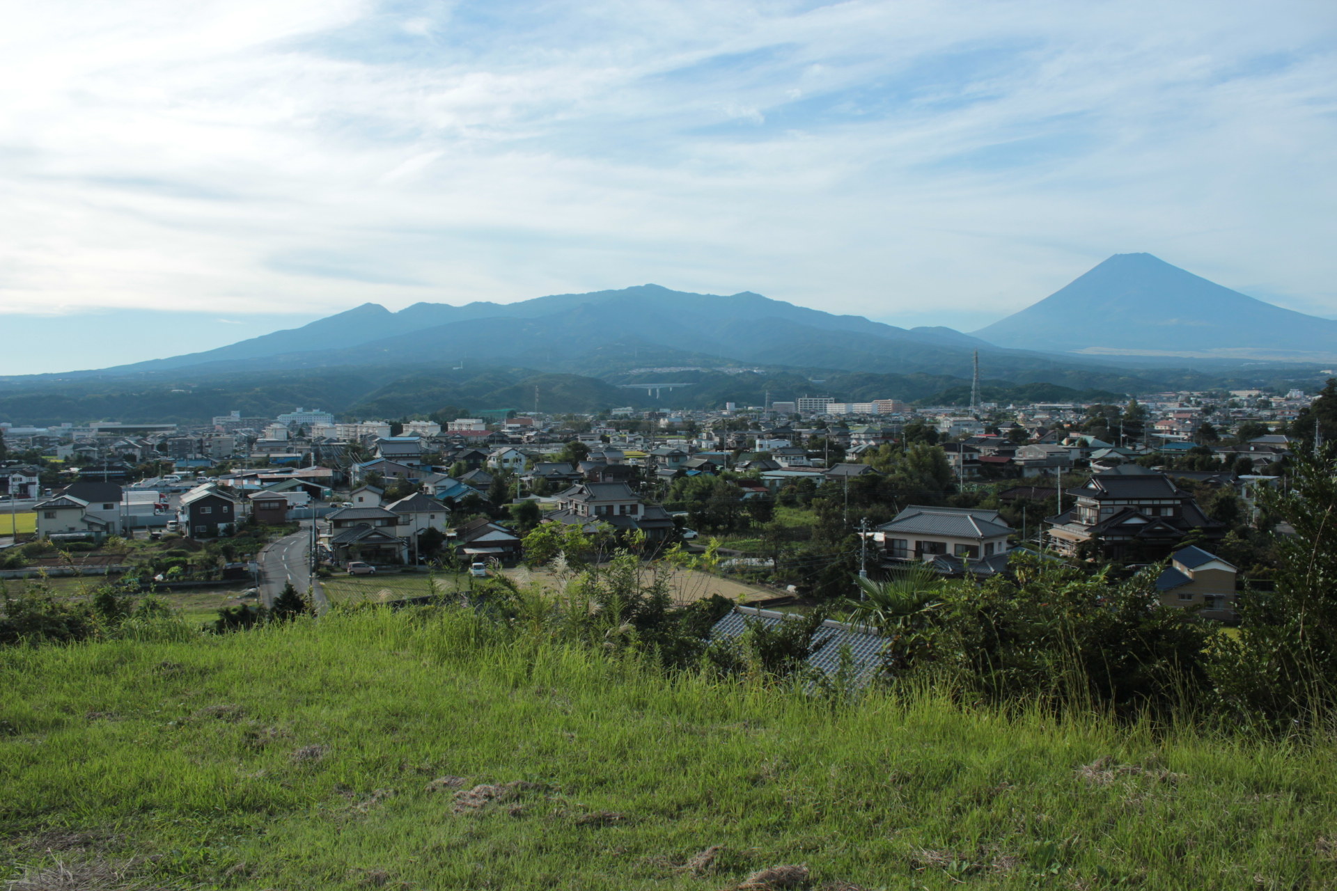 View of Susono city, Shizuoka prefecture, Japan.